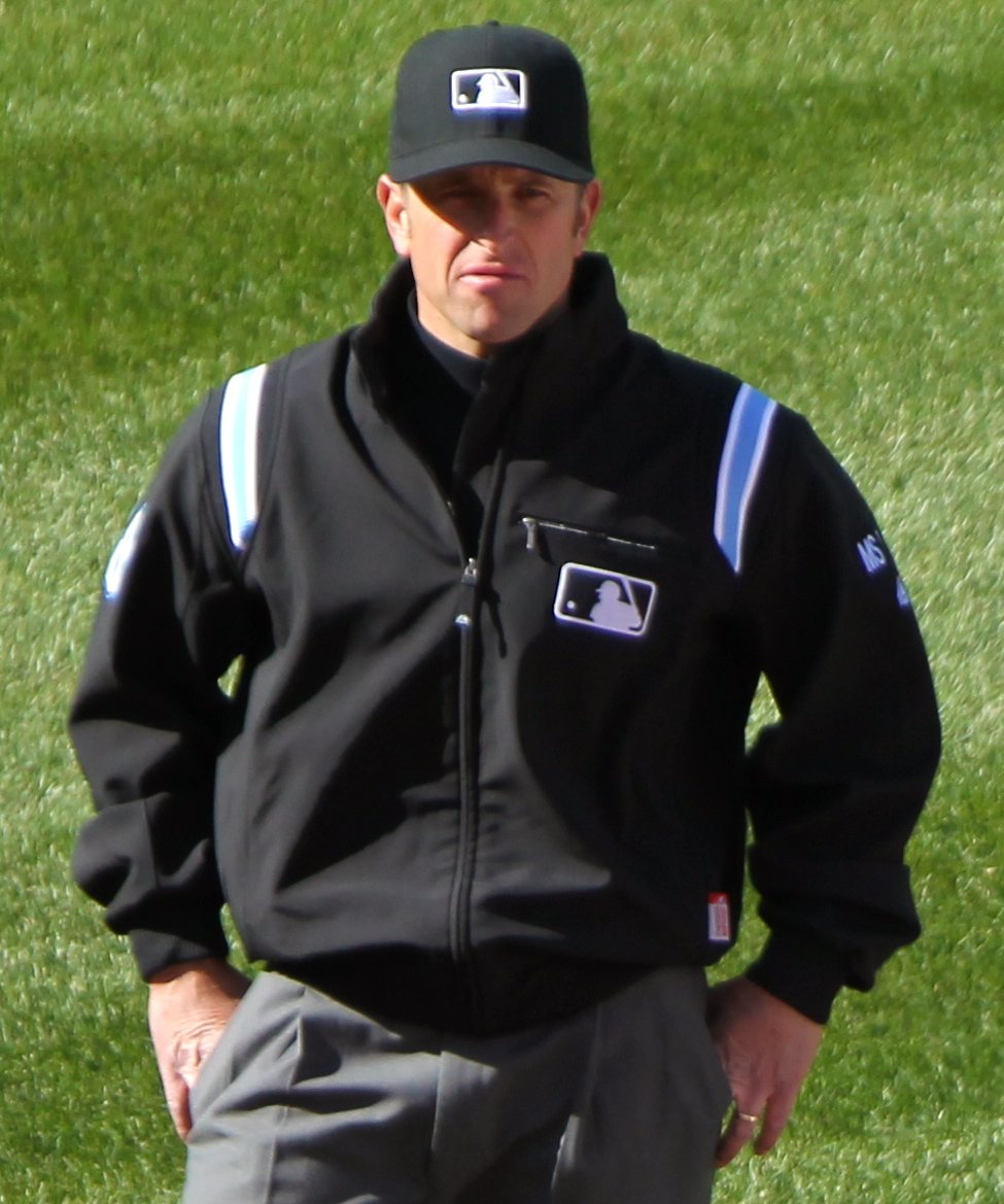 Umpire Chris Guccione - Twins at Orioles April 6, 2012